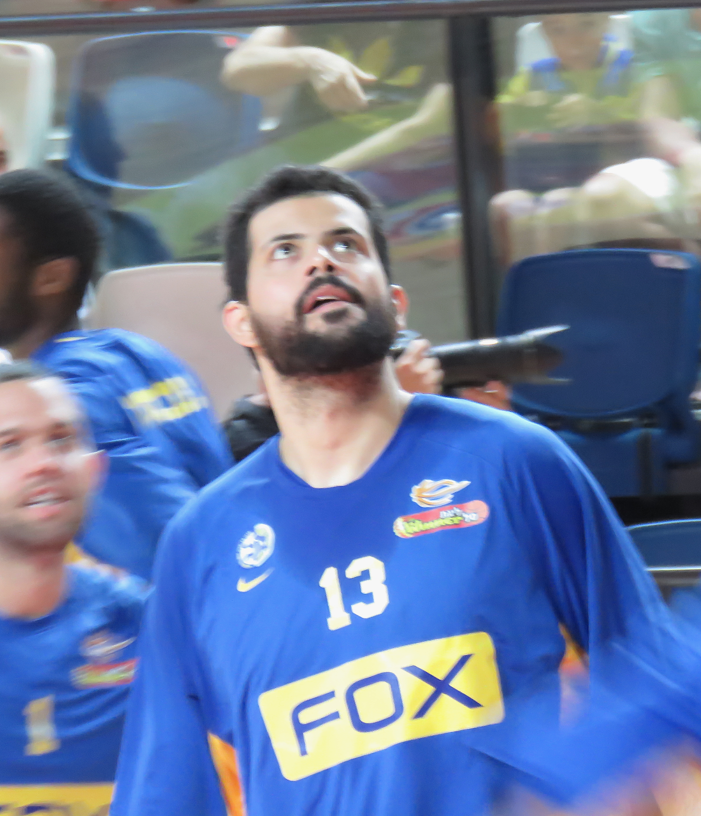 Maccabi Rishon LeZion vs. Maccabi Tel Aviv B.C., 26 September, 2015